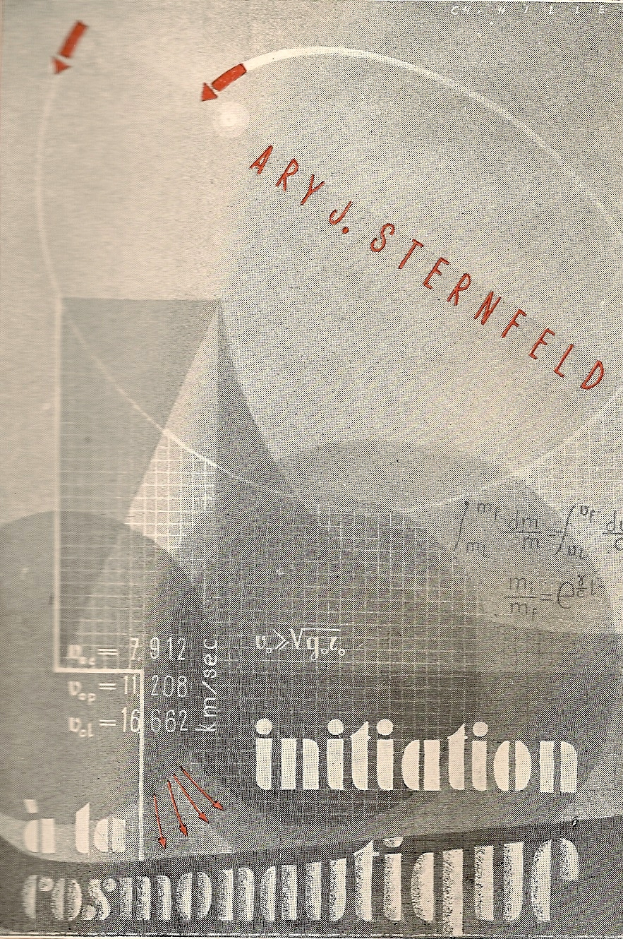 The Frontispiece of Monograph, made by the Polish avant-garde artist K. Hillier